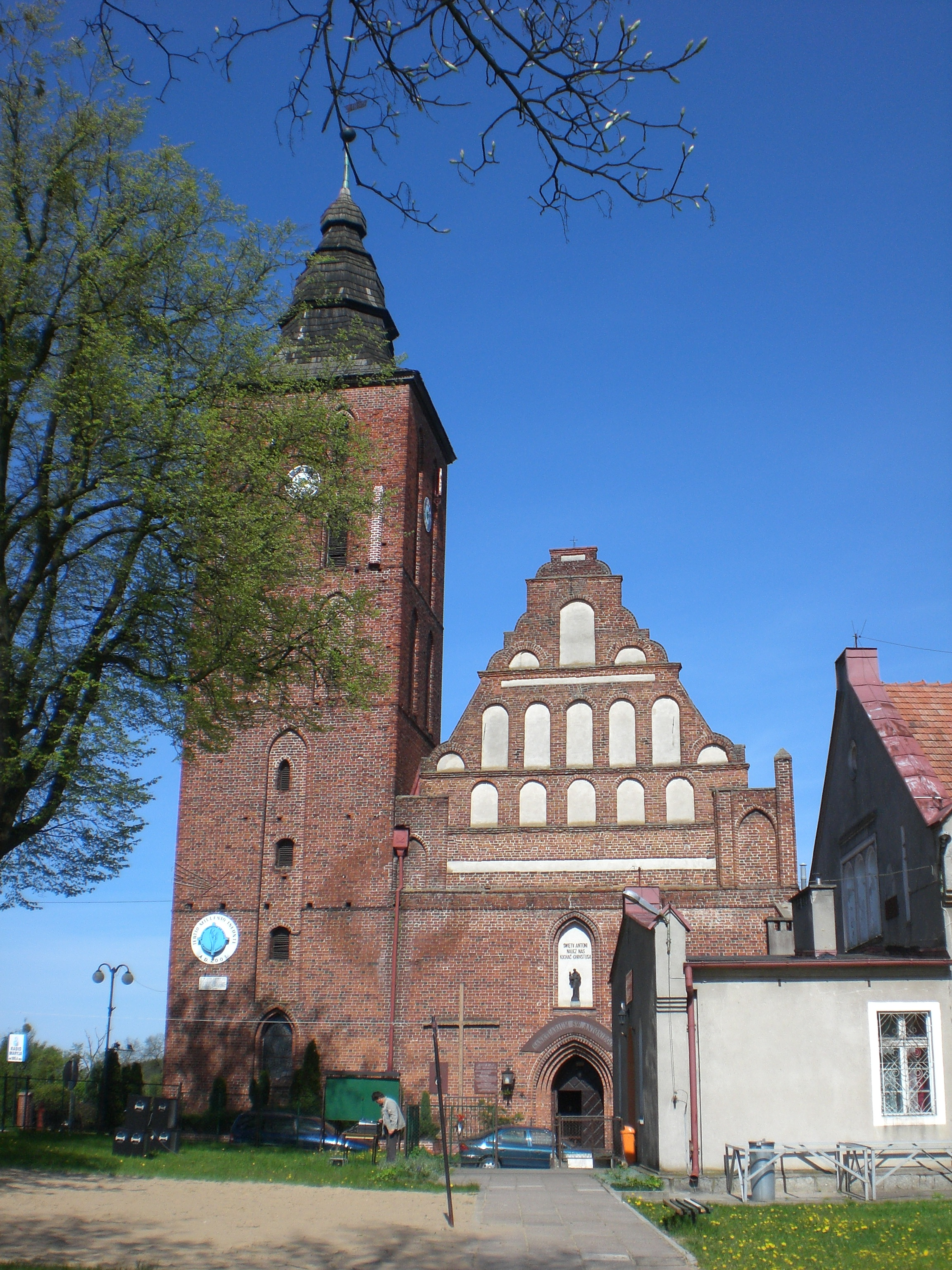 Church of Saint Anthony of Padua in Susz